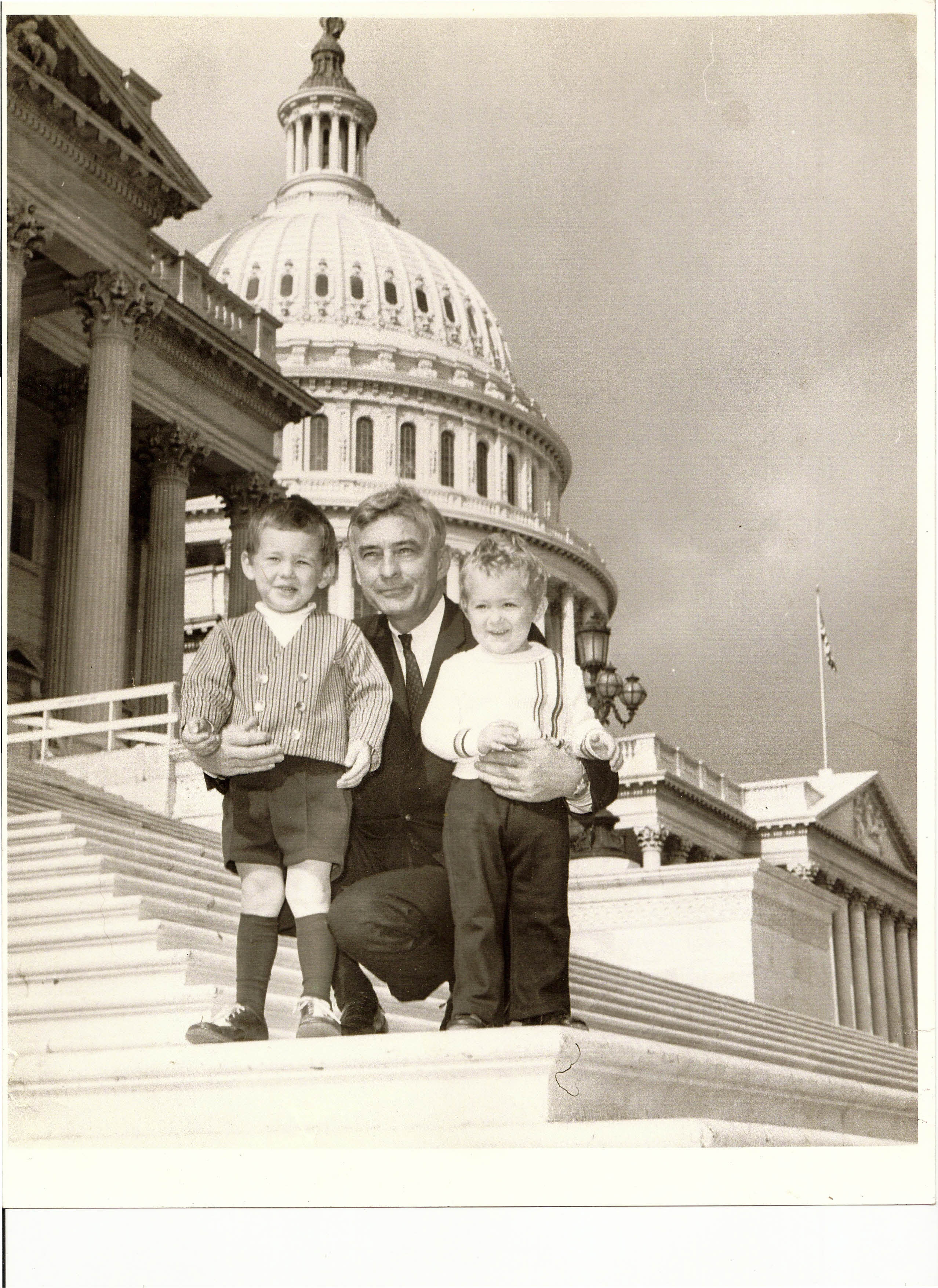 family photograph.